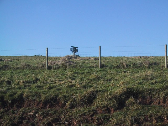 Radar station on the headland Formerly part of the HMS Cambridge establishment.